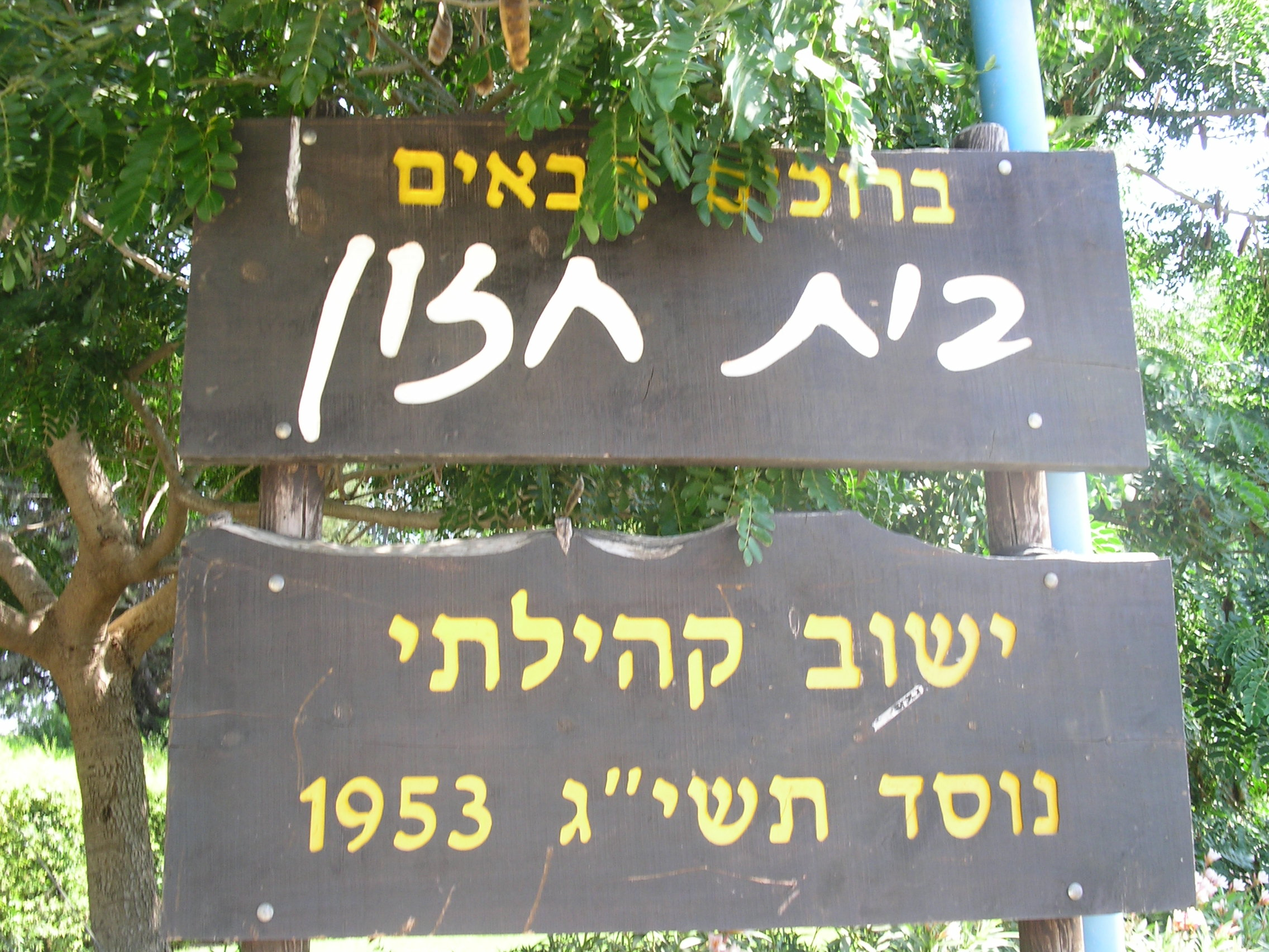 The admission's placard of Beit Hazon.